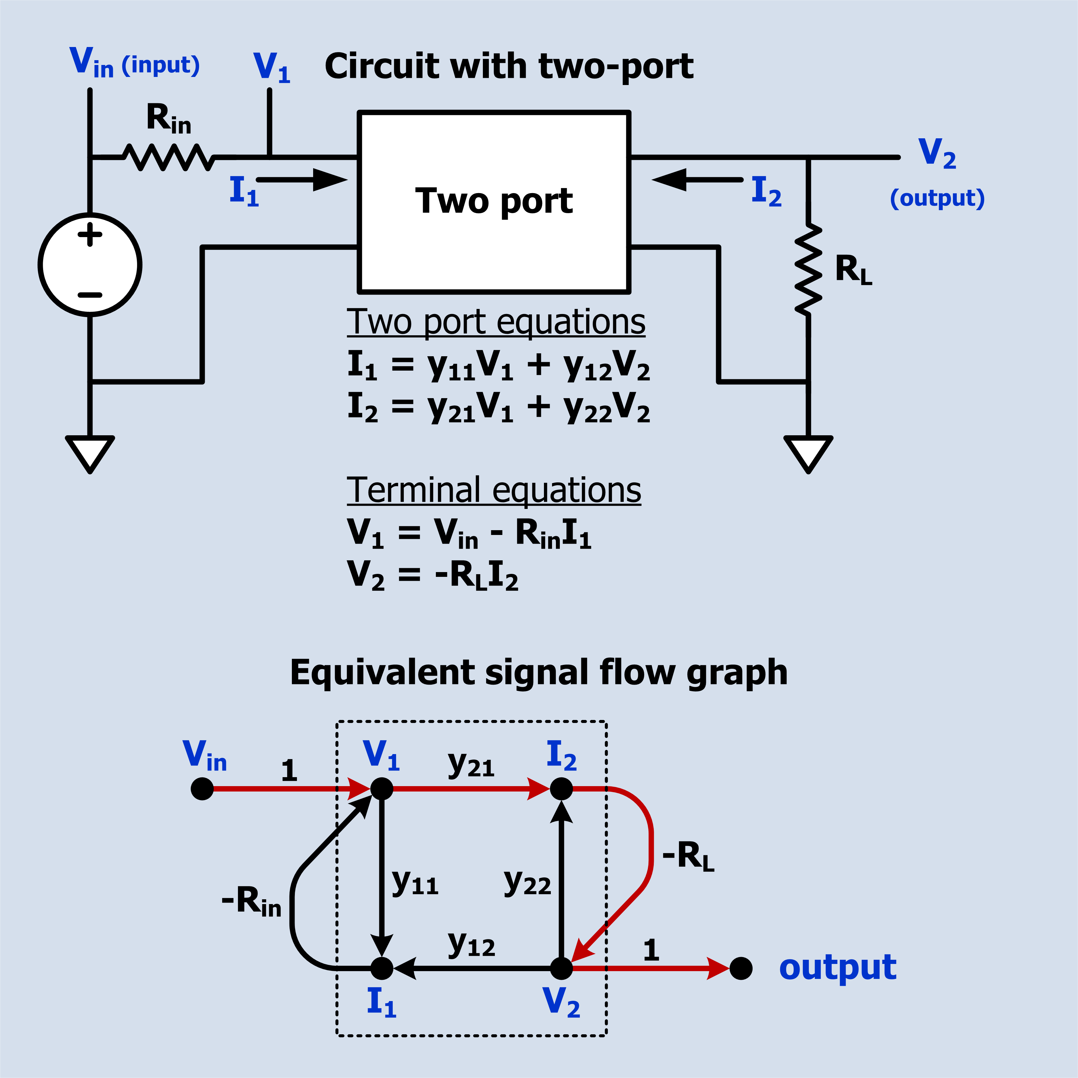 A simple circuit incorporating a two-port network and its equivalent signal flow graph. Node names have been shown in a contrasting color to make them more obvious.